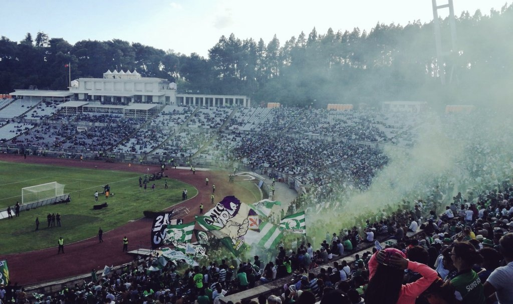 Sporting Clube de Portugal supporters at the 2016–17 Women's Portugal Cup Final